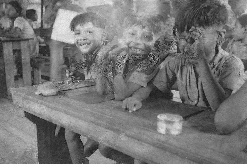 Restoration of a Photograph of George Simon (far left) at school in St. Cuthbert's Mission, Guyana.